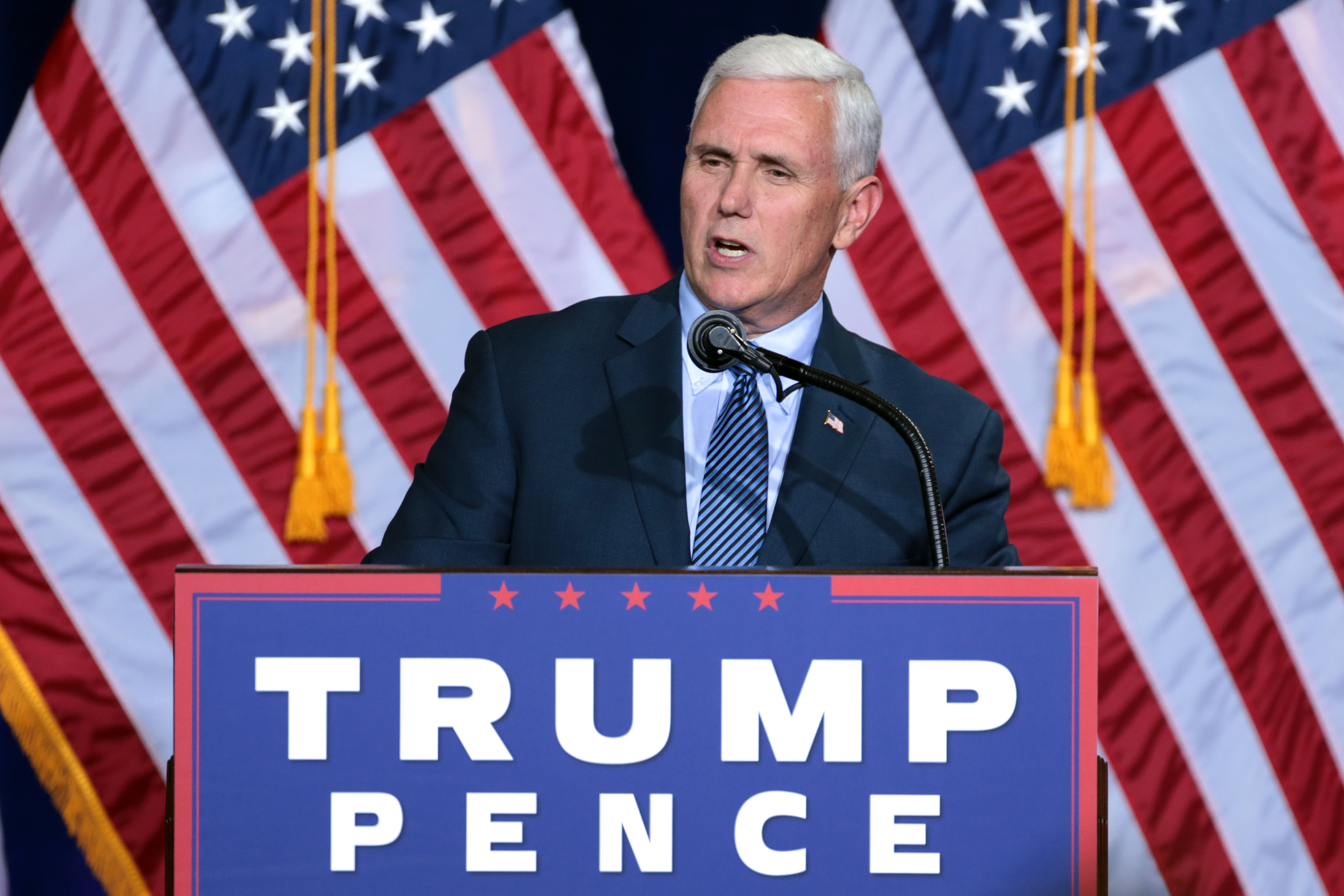 Governor Mike Pence of Indiana speaking to supporters at an immigration policy speech hosted by Donald Trump at the Phoenix Convention Center in Phoenix, Arizona.